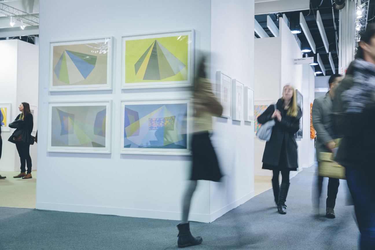 The Armory Show 2015